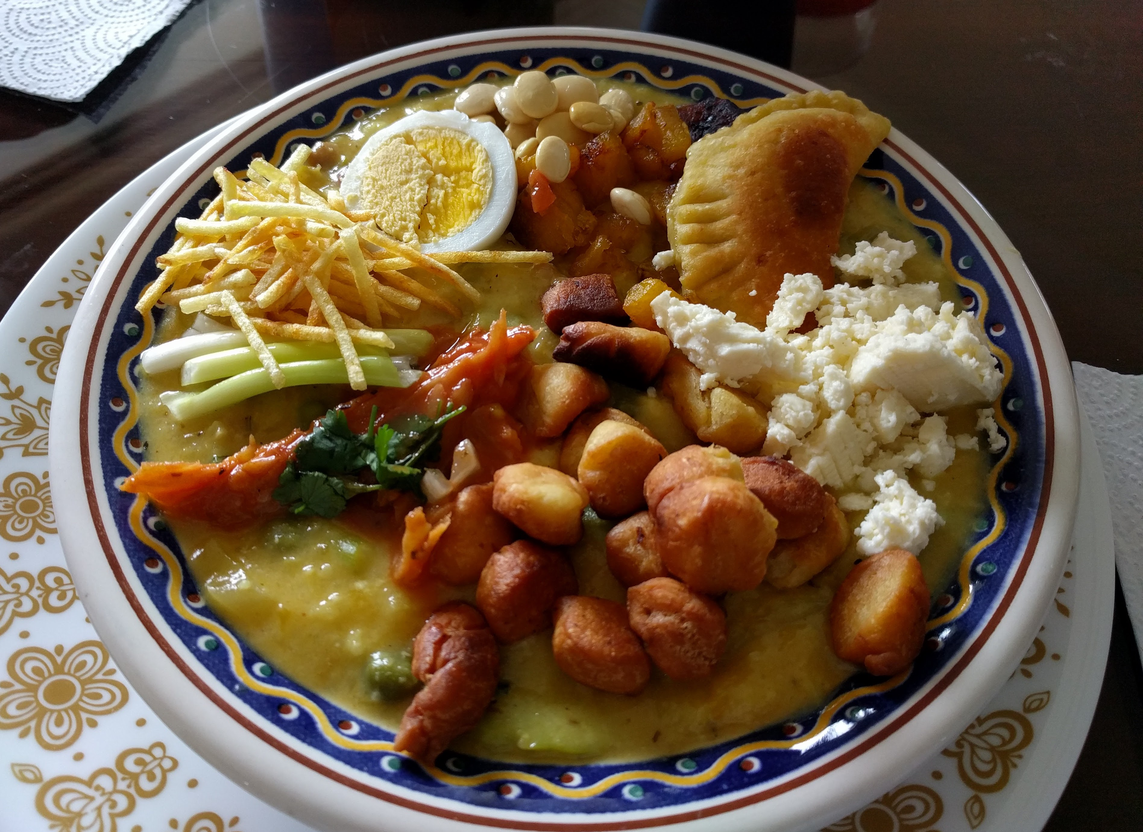 Traditional Ecuadorian soup